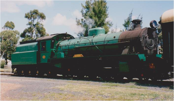 Western Australian Government Railways steam locomotive W903 at Waroona Corporal29 (talk) 07:01, 3 September 2011 (UTC)